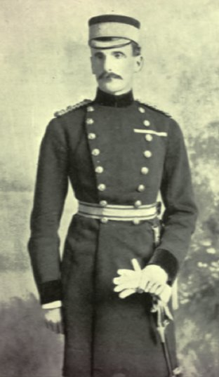 Ivor John Caradoc Herbert (1851-1933)